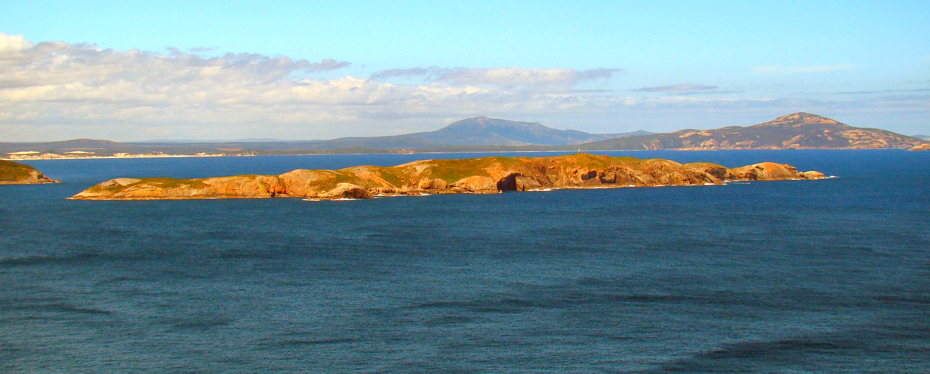 Breaksea Island as seen from the Flinders Peninsula to its Southwest.